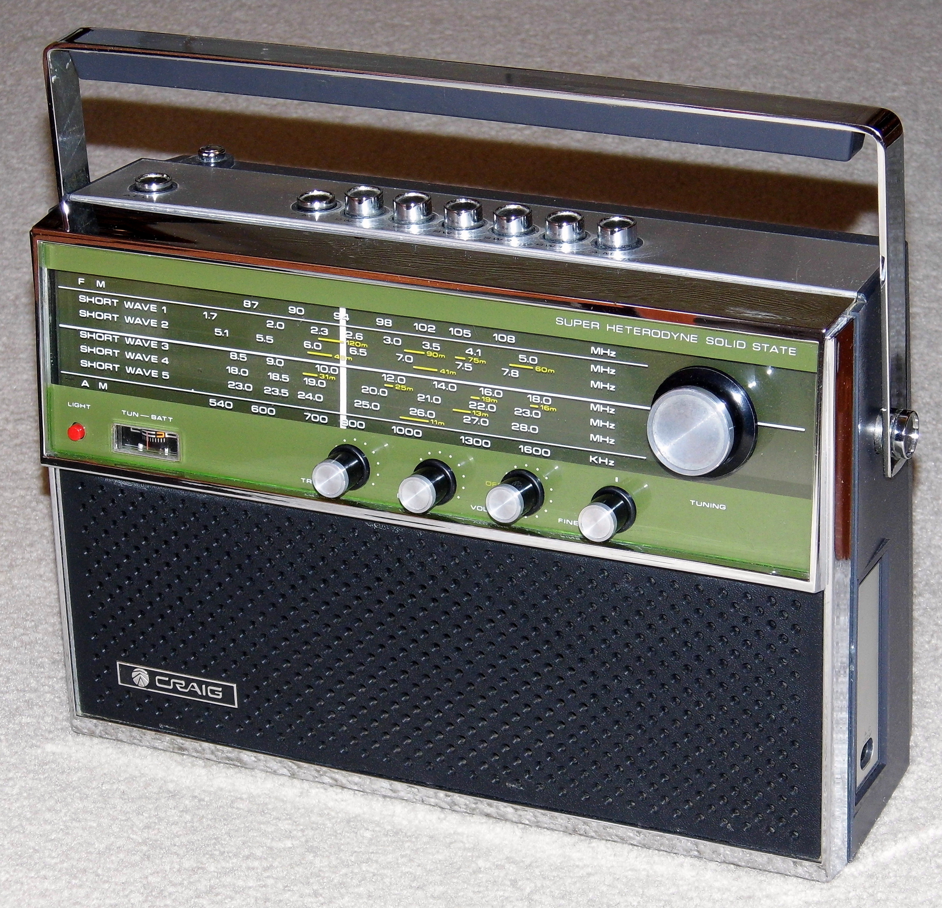 Vintage Craig Multi-Band (AM-FM-SW) Portable Radio, Model 1306, Solid State, Made By Sanyo Electric Co. In Japan